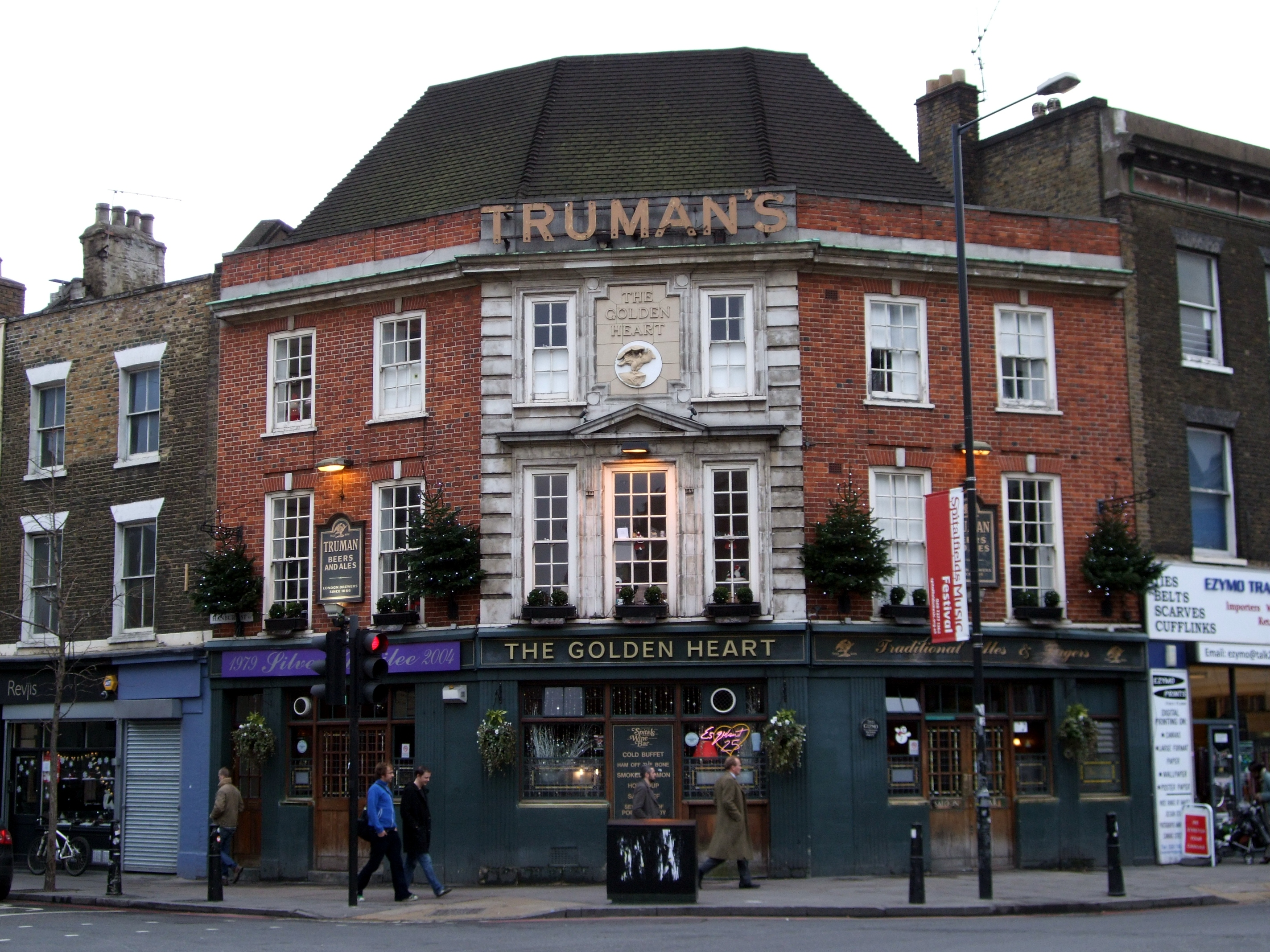 Old-fashioned pub, presumably now overrun by arty types. It's just about opposite the Old Spitalfields Market (and now-closed Spitz venue). Address: 110 Commercial Street. Owner: Truman Hanbury Buxton (former). Links: Fancyapint Beer in the Evening Dead Pubs (history)